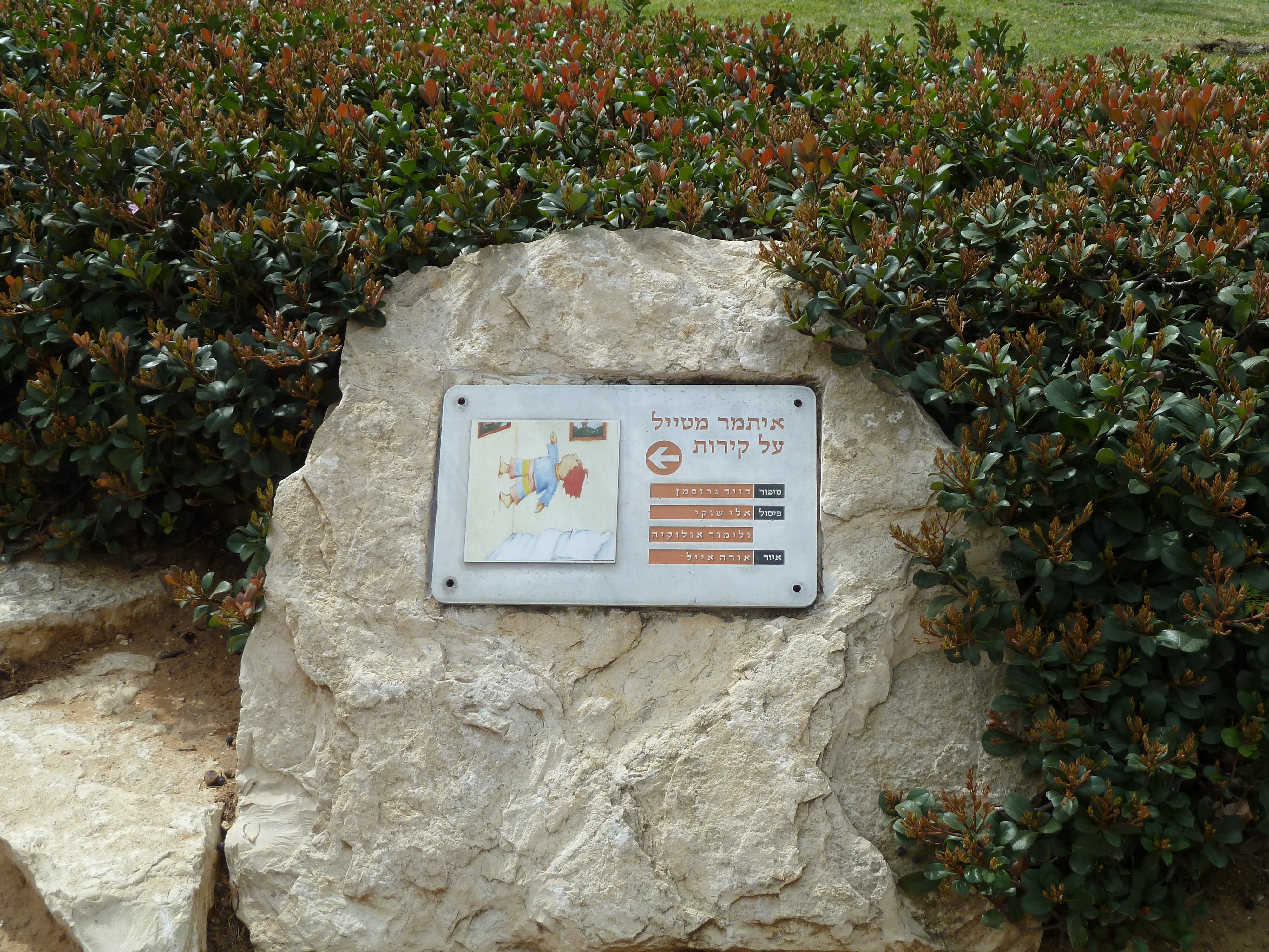 IItamar Walks on Walls - Statues by Eli Shuki and Limor Olokia, based on the book by David Grossman, Holon, Israel This image was taken as part of the Elef Millim project trip to Hussamssa in Holon in the Centre of Israel, which was held on Friday, 8th March 2013. To view all images uploaded as part of the Elef Millim Project